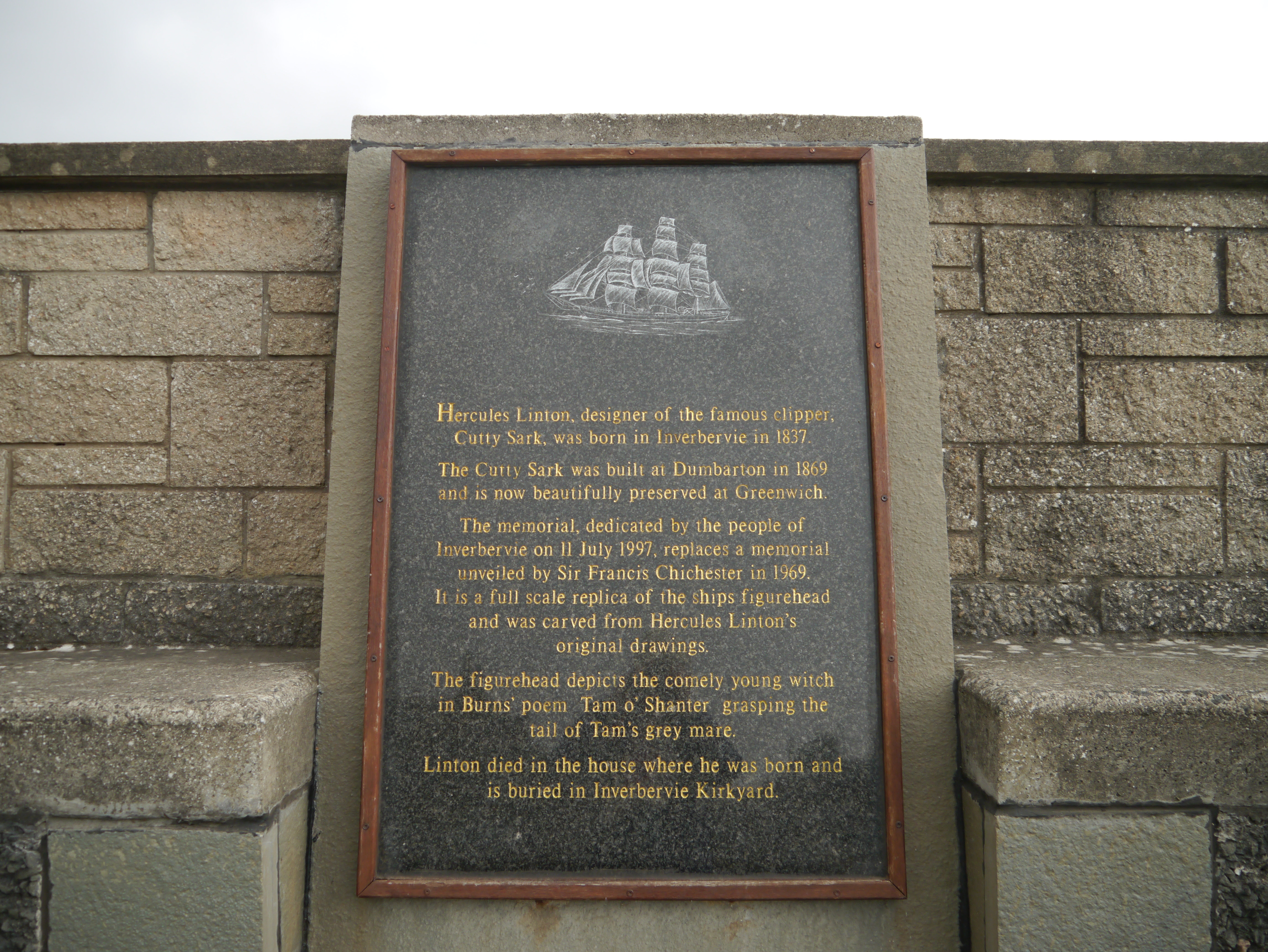 Hercules Linton's memorial plaque in Inverbervie